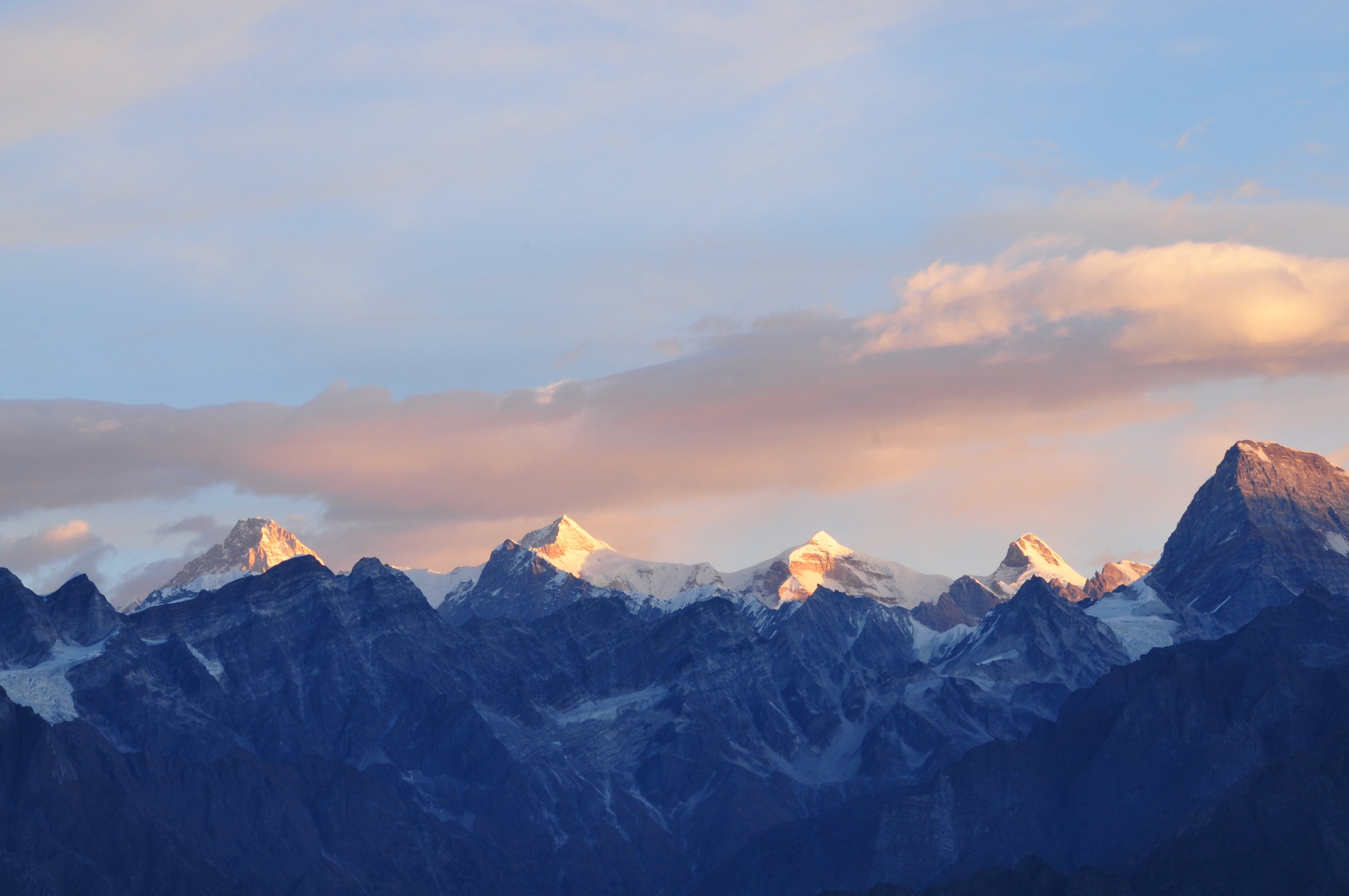 Kamet (on left), Mandir Parbat (second from left), Deoban Peak (center), Nilgiri Parbat (right most)